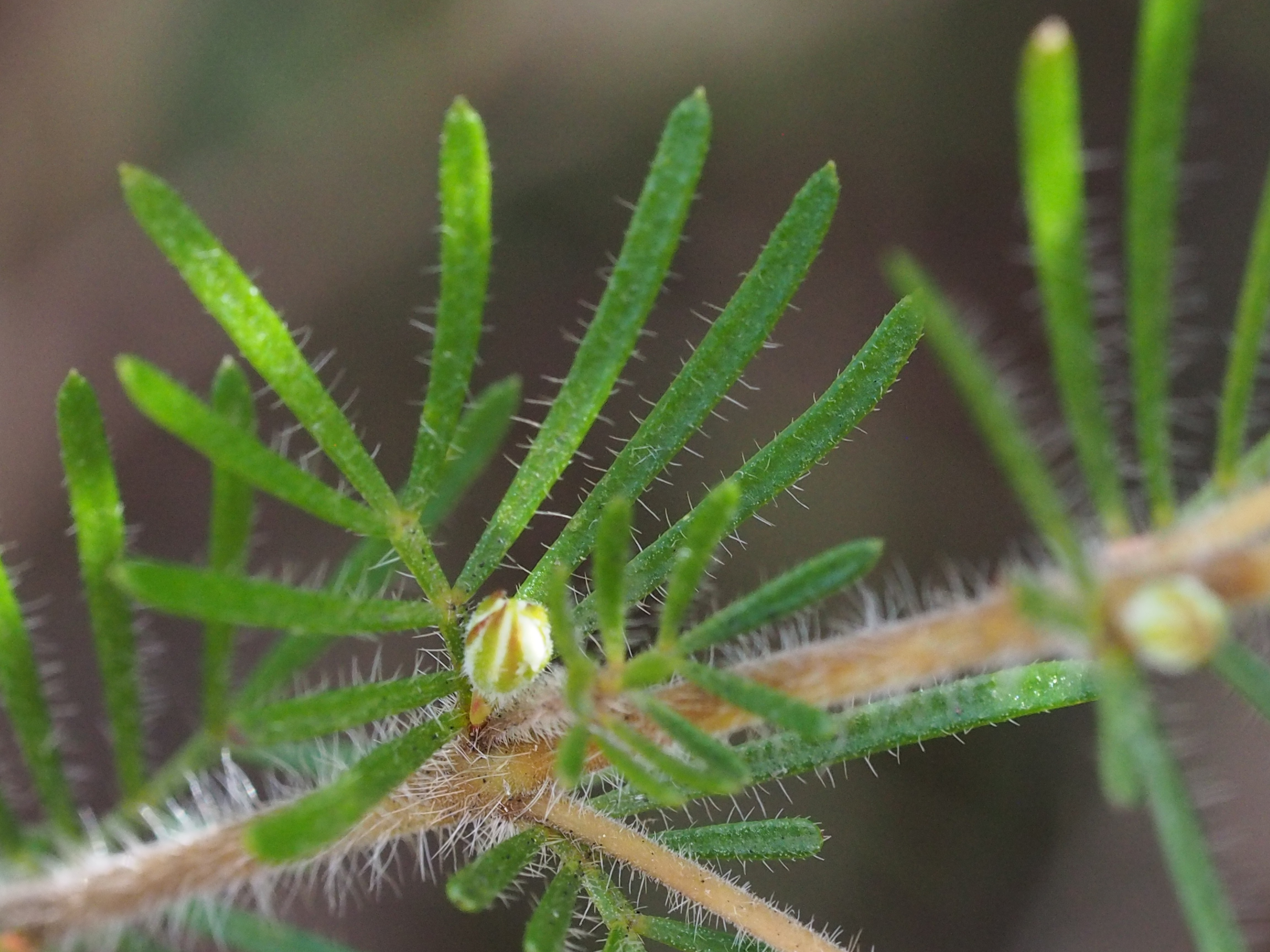 Close up of the leaf of Boronia stricta